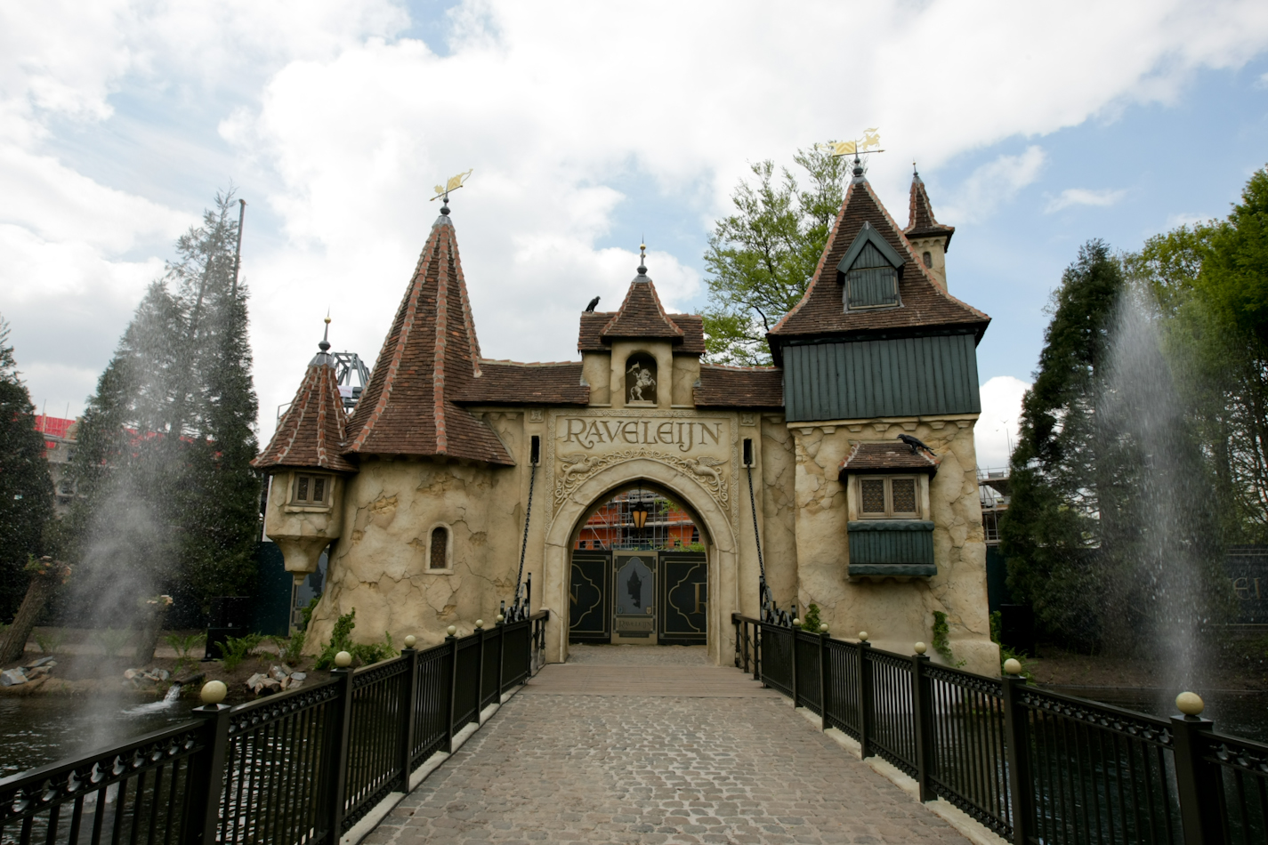 Raveleijn entrance